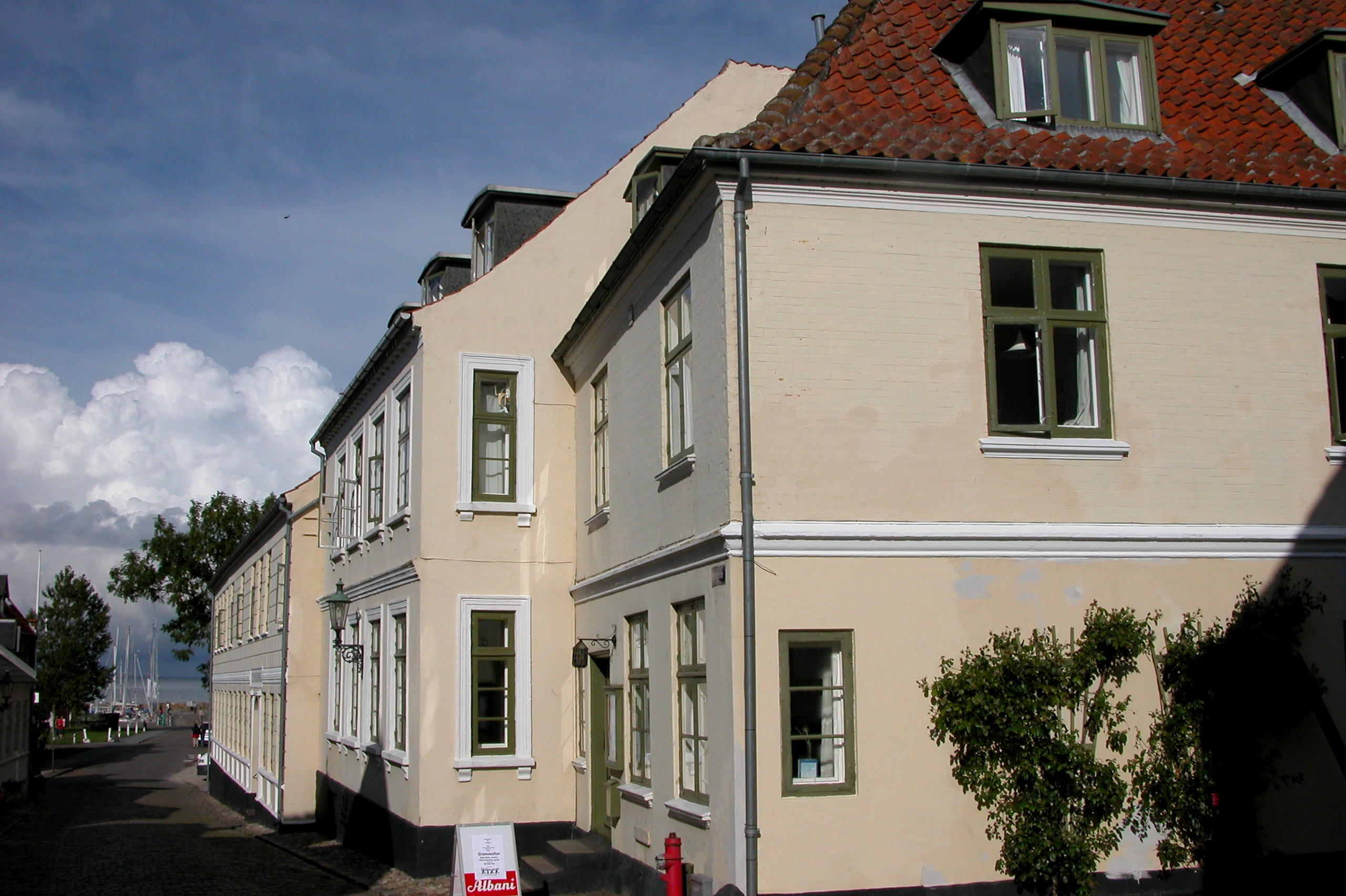 Ærø Højskole, Ærøskøbing, Ærø, Denmark